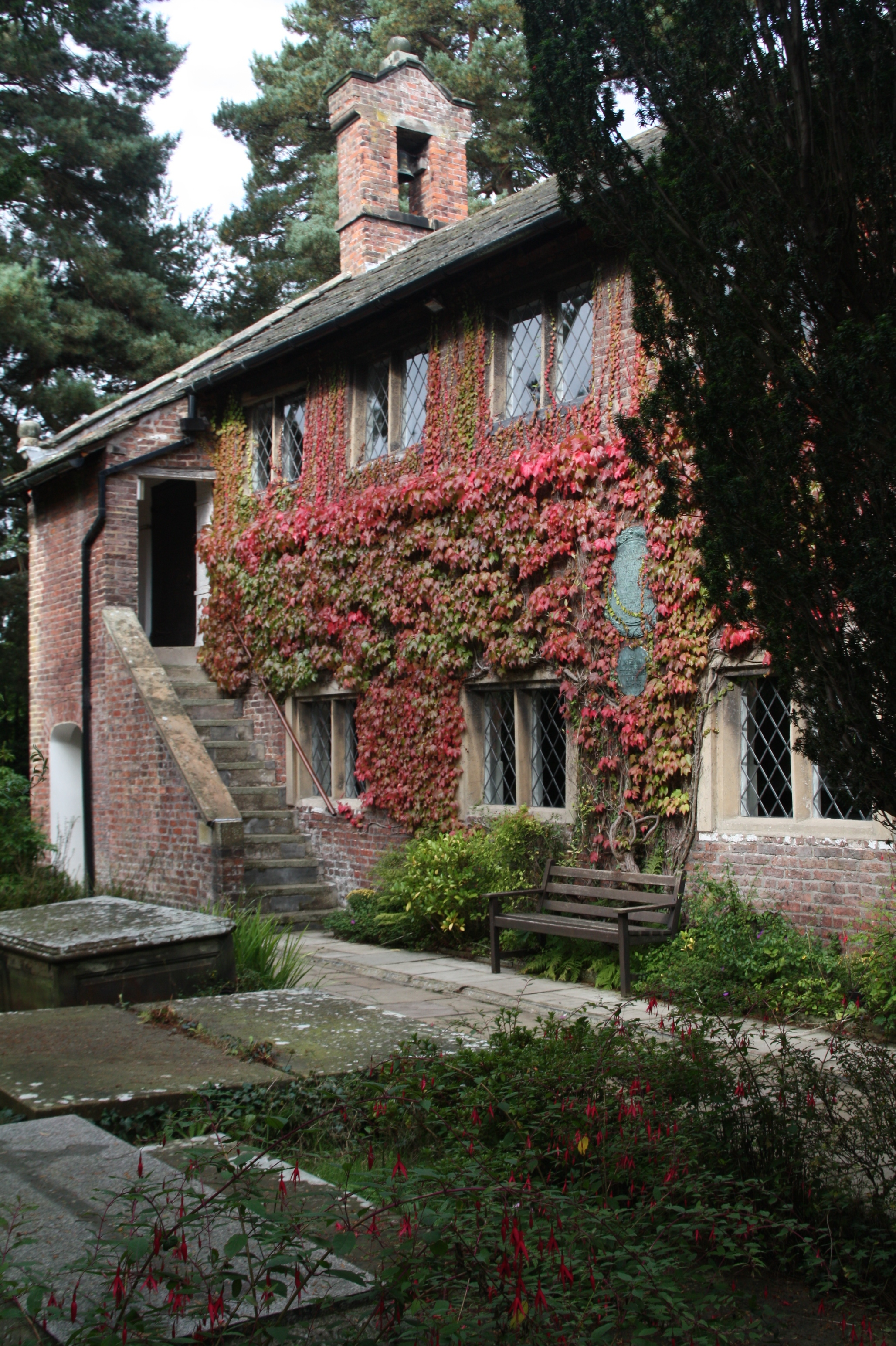 Dean Row Unitarian Chapel, a grade II* listed building in Cheshire East. Its design, with external gallery stairs at each end, resembles other chapels locally, in Knutsford and Macclesfield.